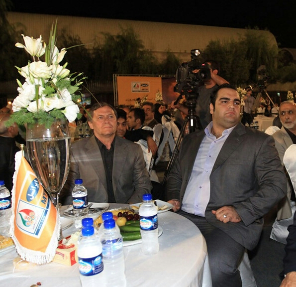 Behdad Salimi